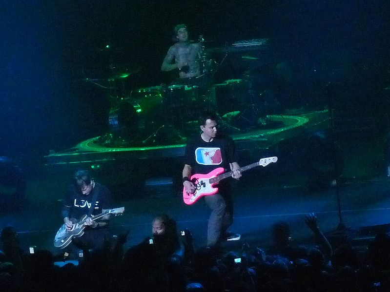 blink at 182 nevada las vegas 2009